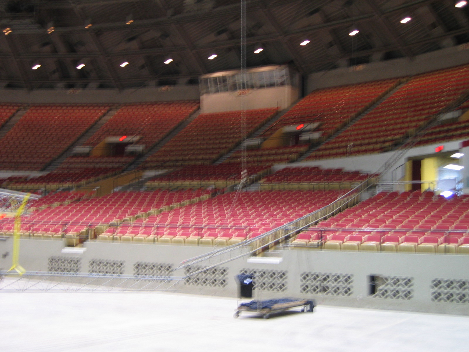 Football & Basketball Facilities DTE Energy Center